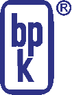 This is logo of BPK Gunung Mulia, a Christian publisher in Indonesia